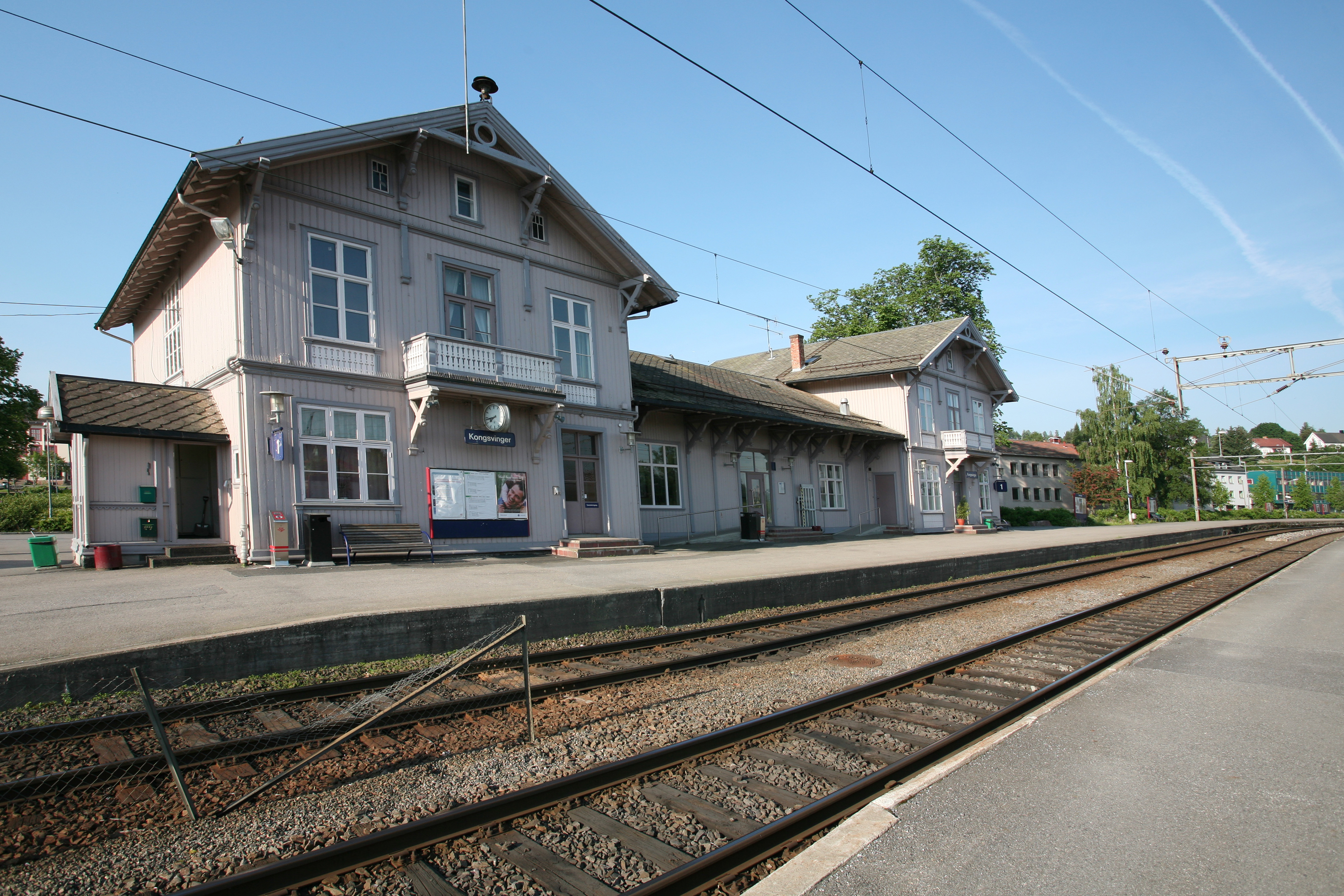 Picture of Kongsvinger Railway Station (Norway)